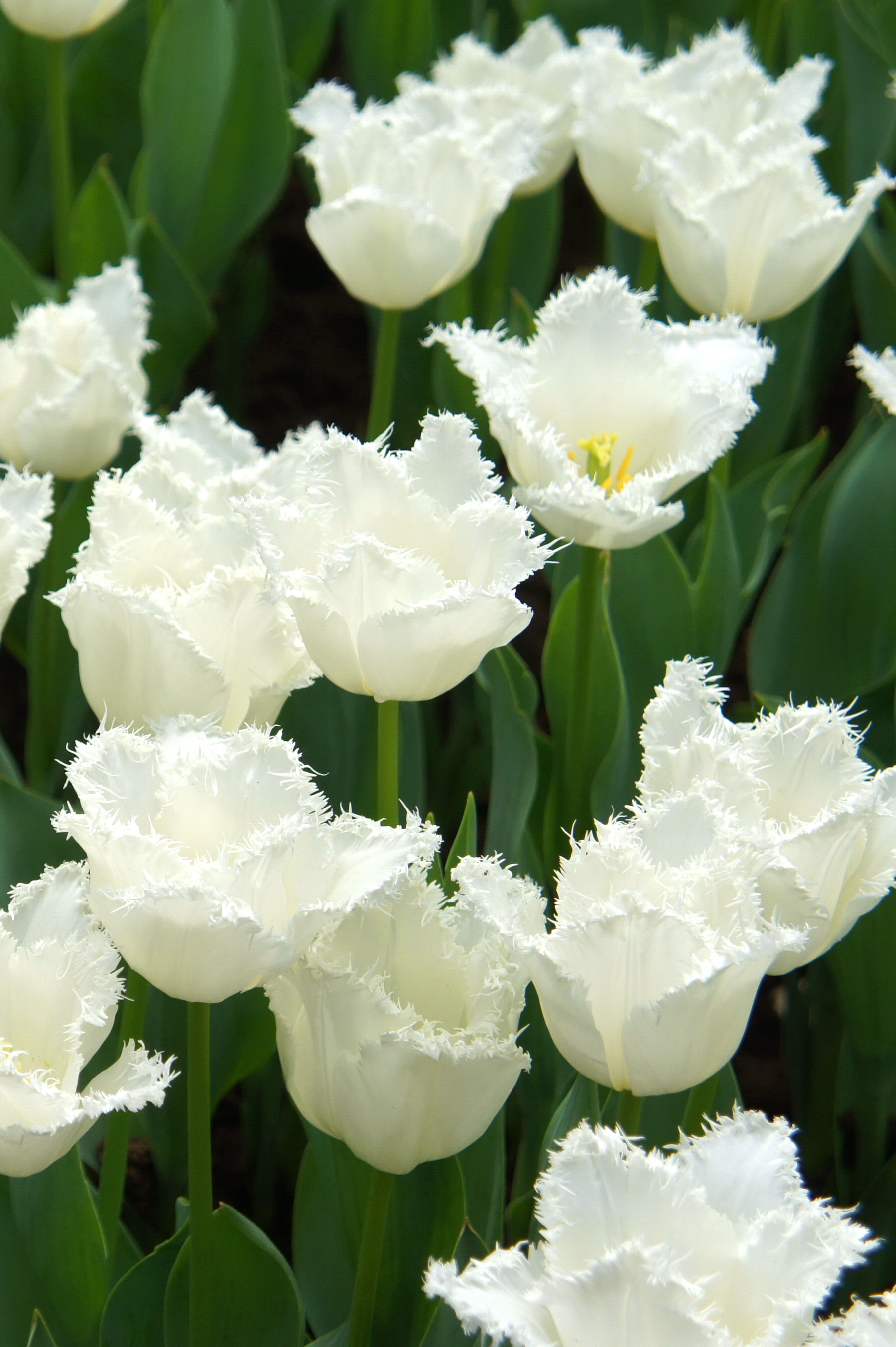 Daytona Tulips